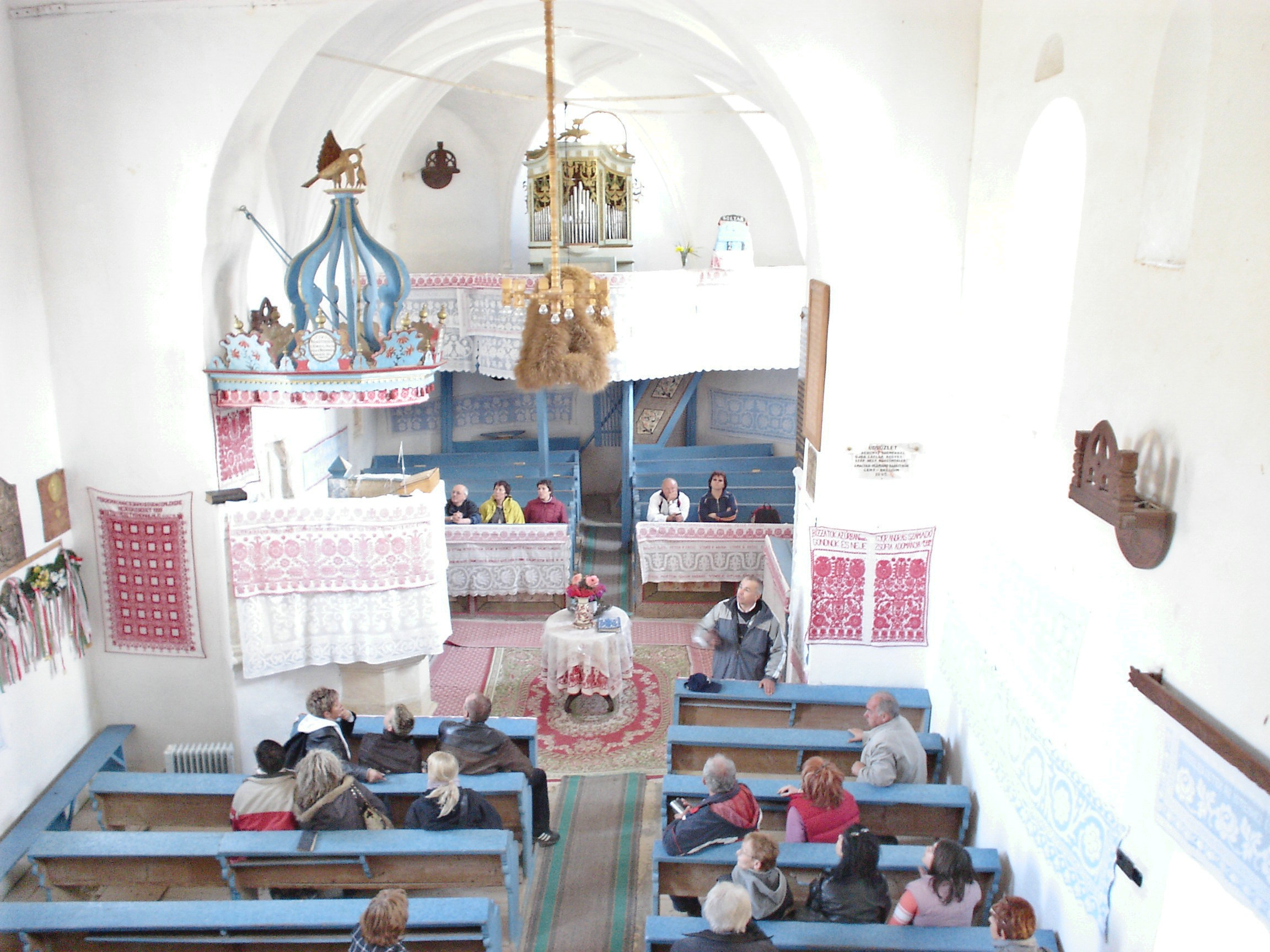 Reformated church in Văleni, Transylvania